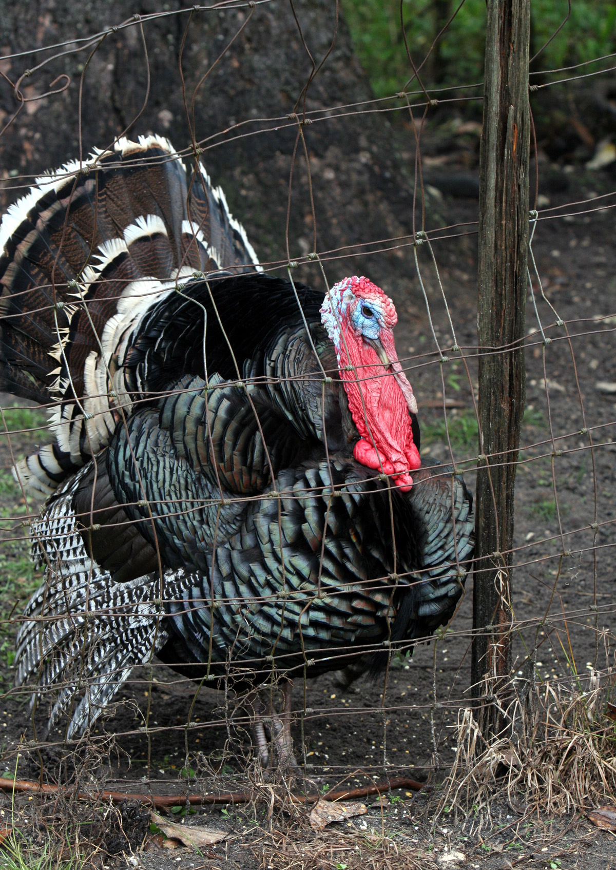 A Thanksgiving survivor